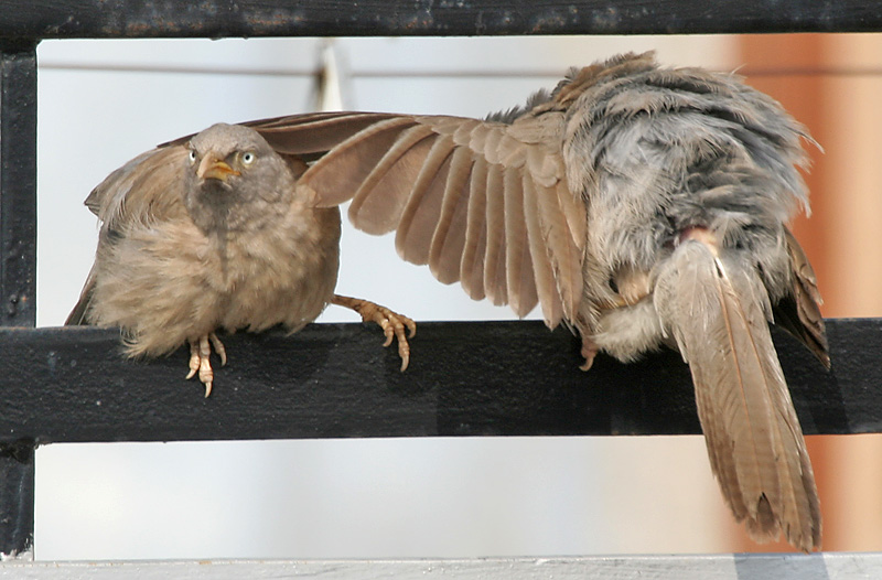 Jungle Babbler Turdoides striatus at Hodal in Faridabad District of Haryana, India.